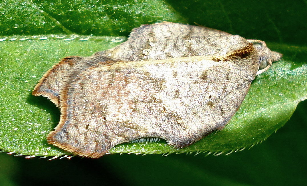 DSC08143 British Moths: Acleris emargana